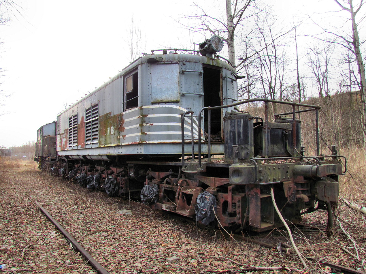 New York Central T-Motor (Class T-3a) #278 preserved south of Albany. #278 is the only surviving T-Motor and was built in 1926.